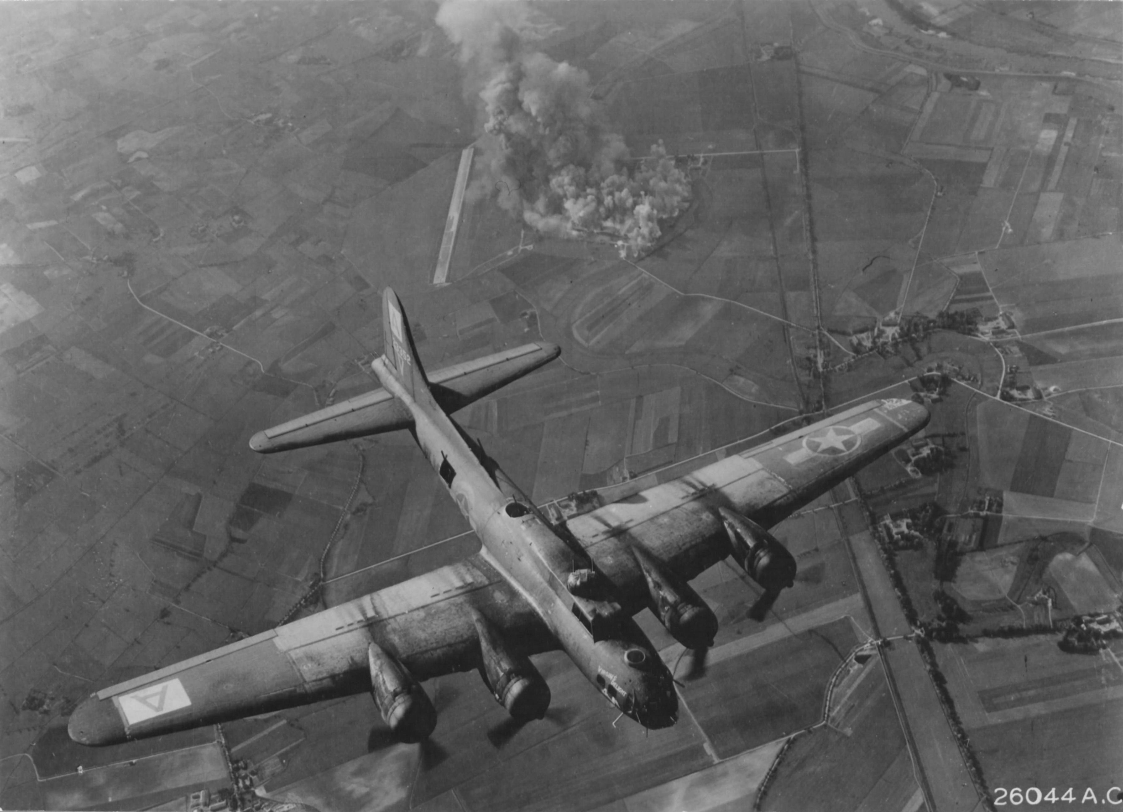 "The first big raid by the 8th Air Force was on a Focke Wulf plant at Marienburg. Coming back, the Germans were up in full force and we lost at least 80 ships—800 men, many of them pals."1943 Air Force Photo